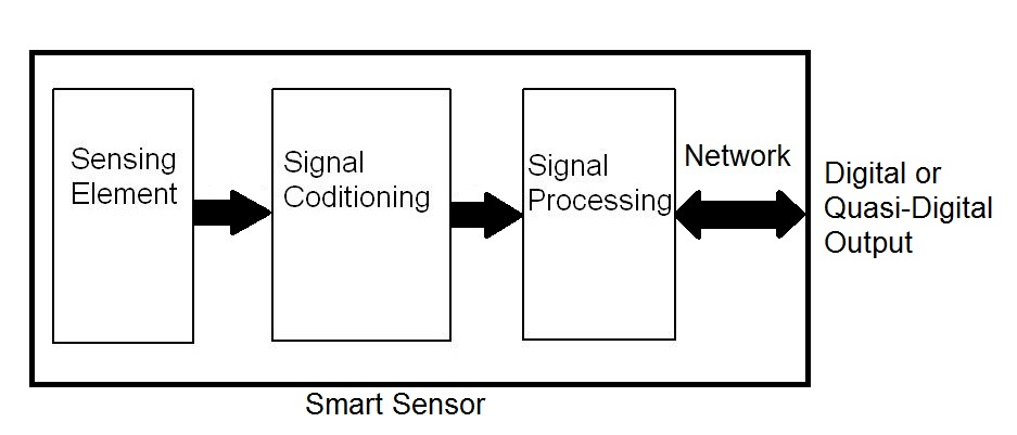 Smart sensor simple block diagram